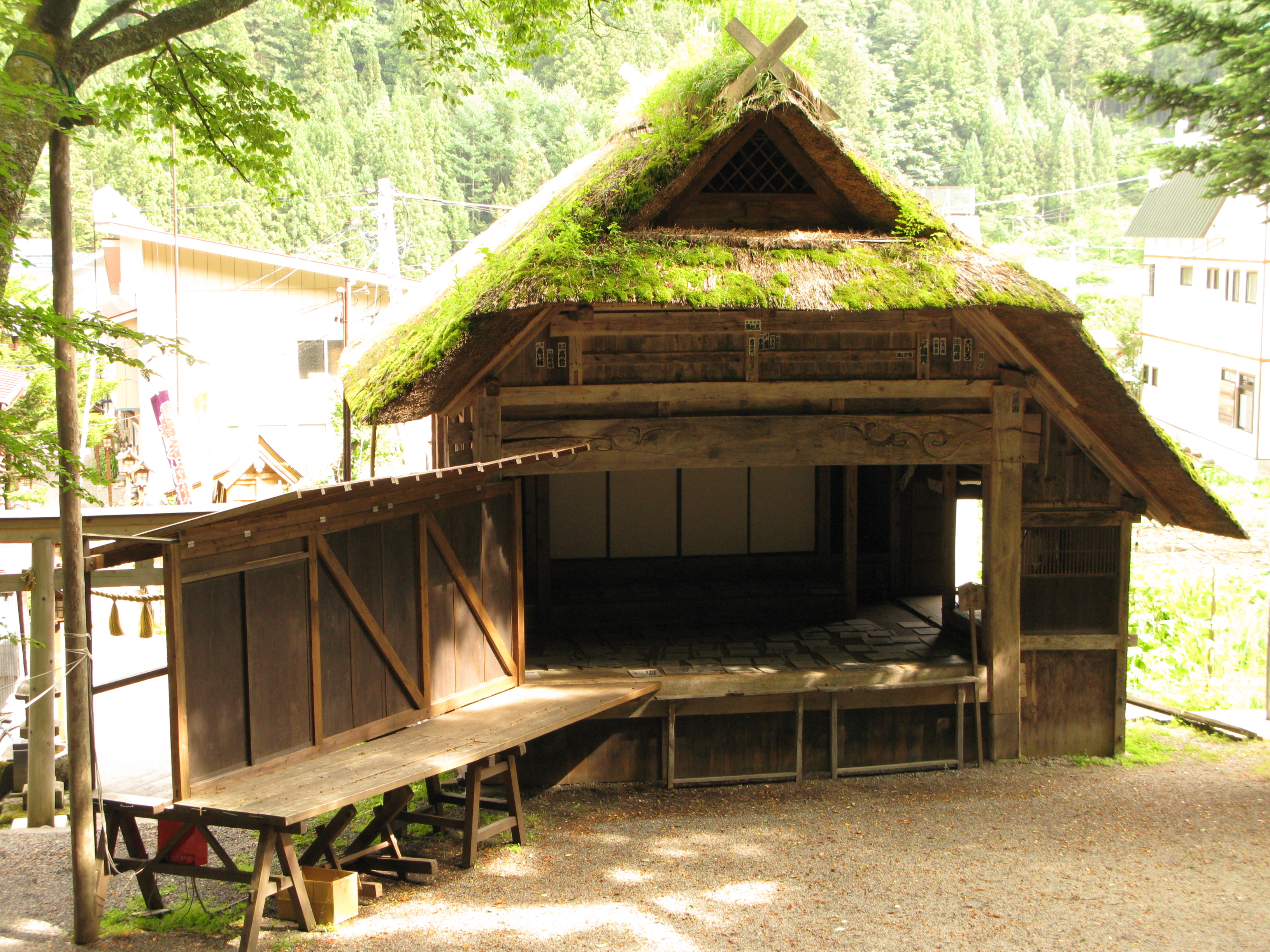 Farm village Kabuki stage "Hinoemata-no Butai",Hinoemata-mura,Fukushima pref.,Japan